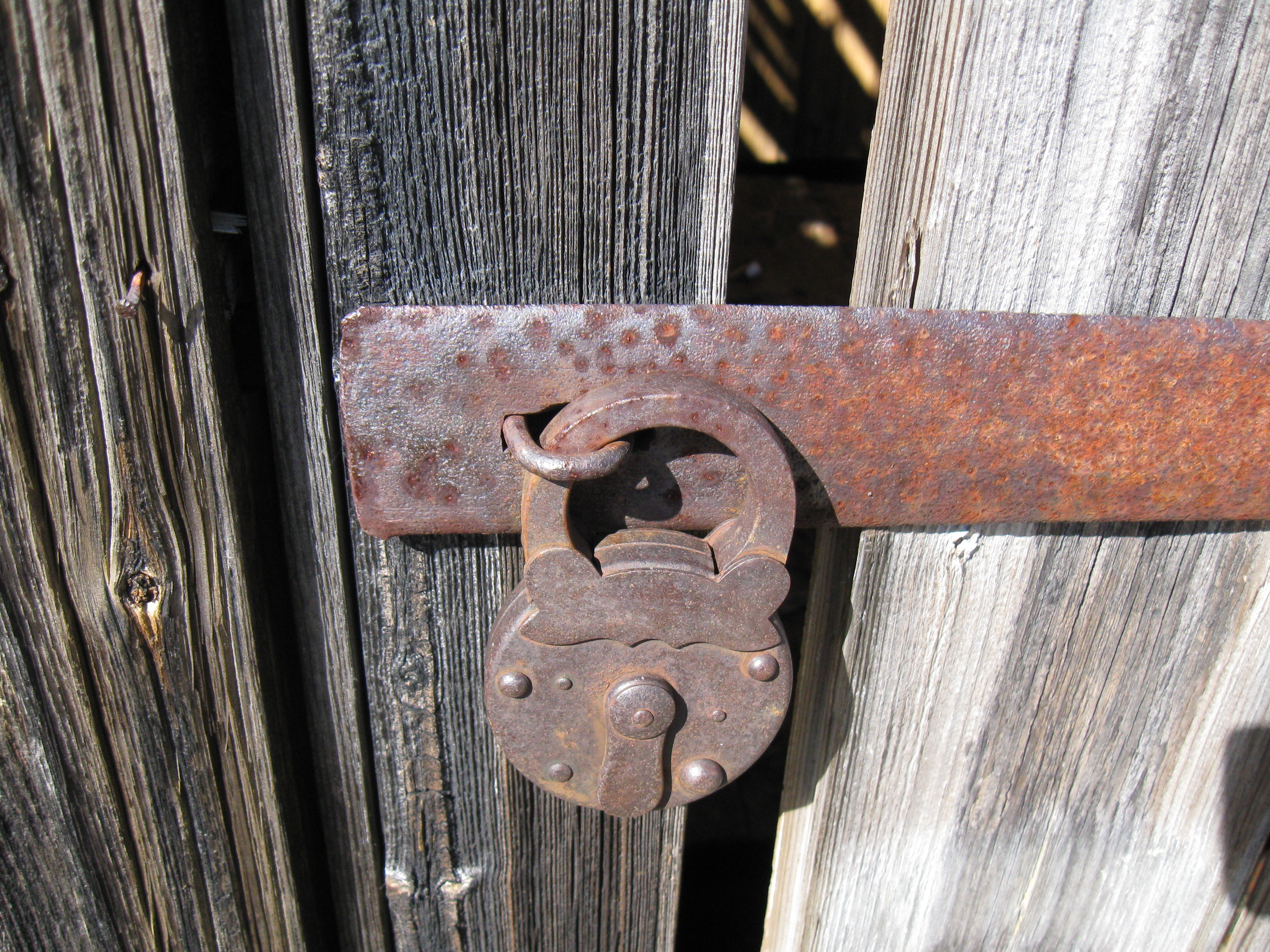 An old Finnish hanging lock.